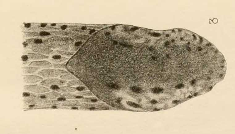 Limax canapicianus var. ocellatus Pollonera, 1888, Limacidae, Pulmonata, Gastropoda, Forno Canavese near Rivara (Province of Turin, Piedmont, Italy), extracted from Pollonera (1888: pl.3, fig.2)